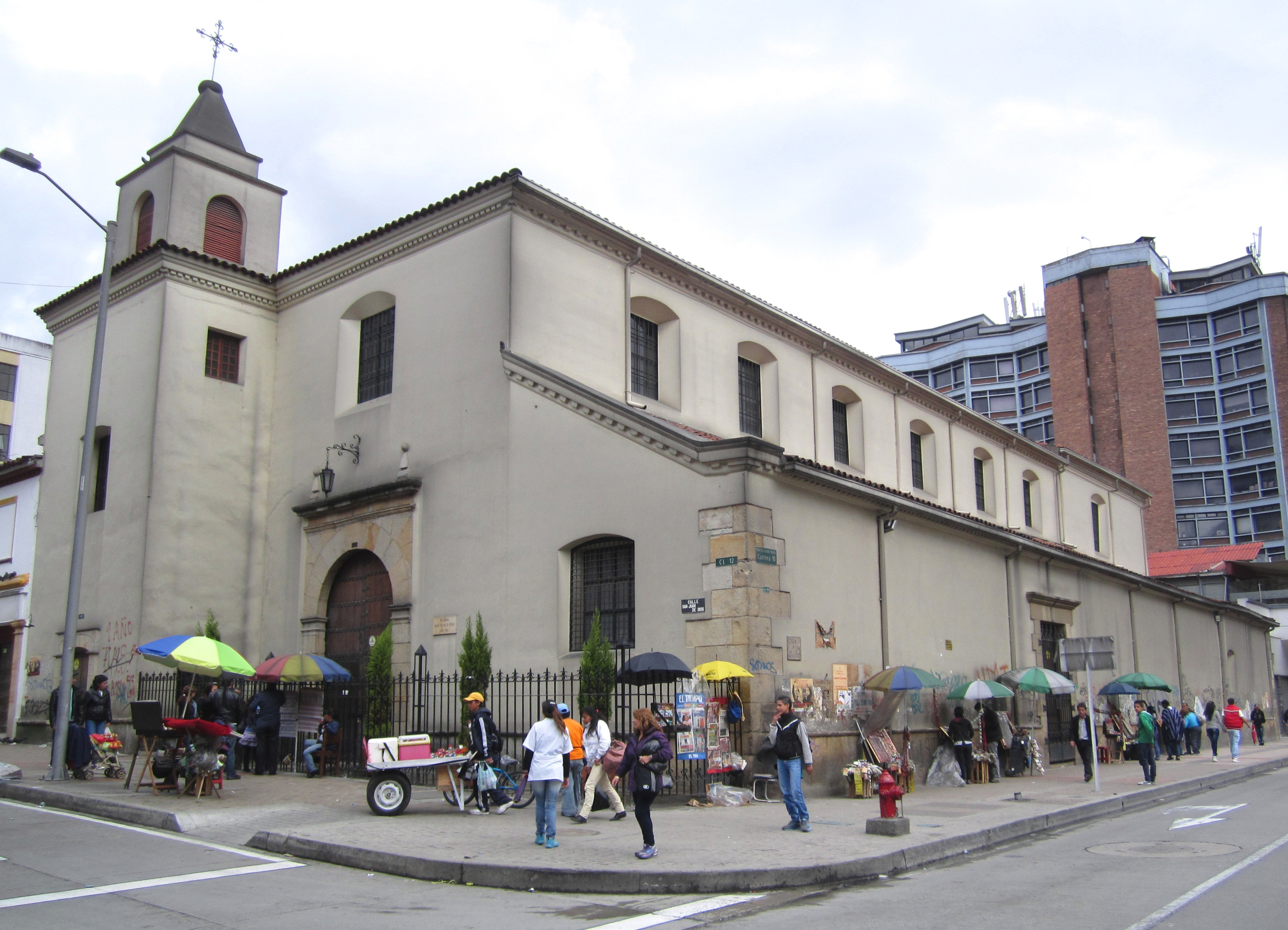 Bogotá Iglesia San Juan de Dios